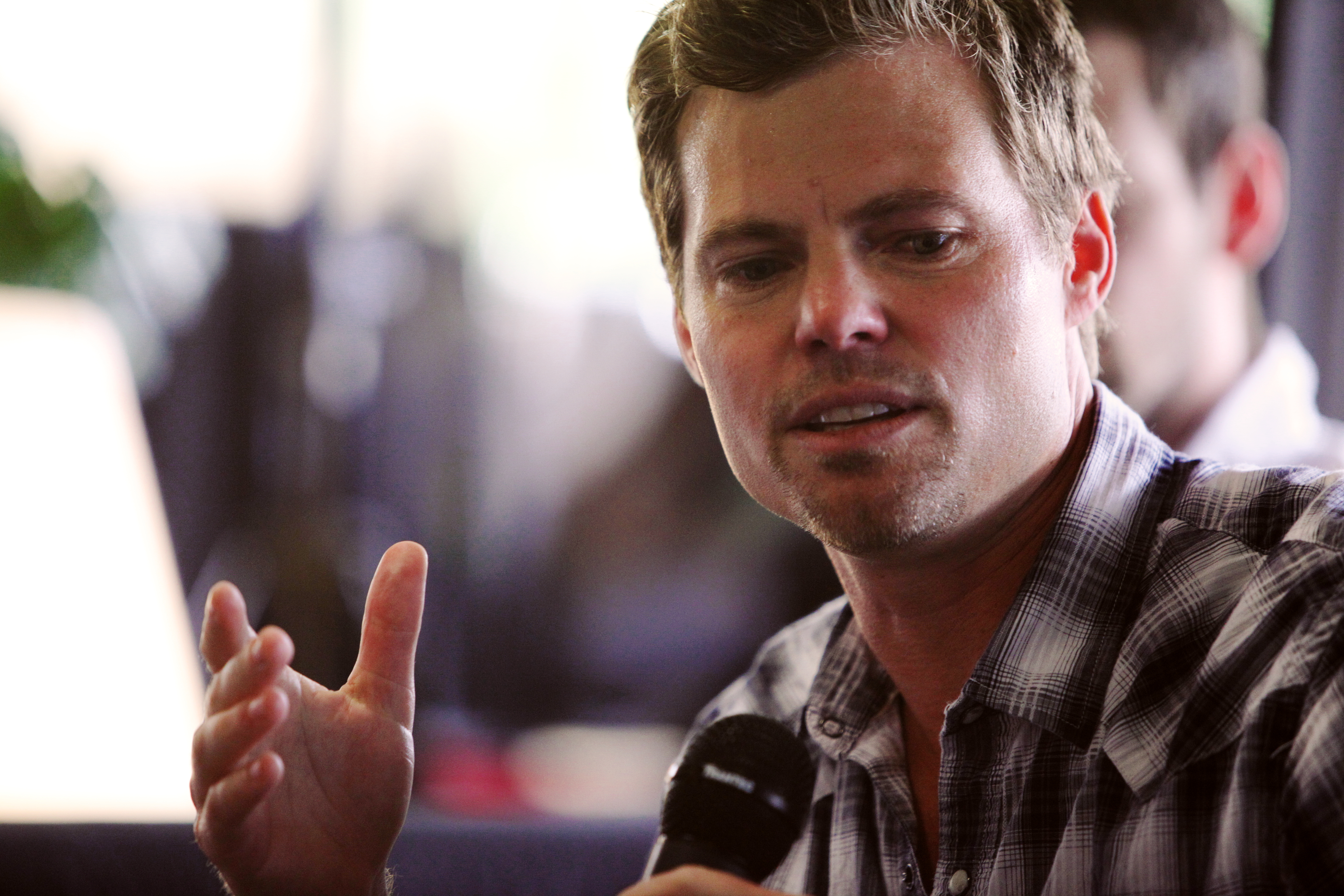 American writer and director Eli Craig at 2010 Karlovy Vary International Film Festival